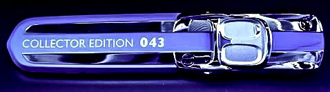 Dash plaque / badge from a 2017 Chevrolet Grand Sport Collector Edition, car number 43